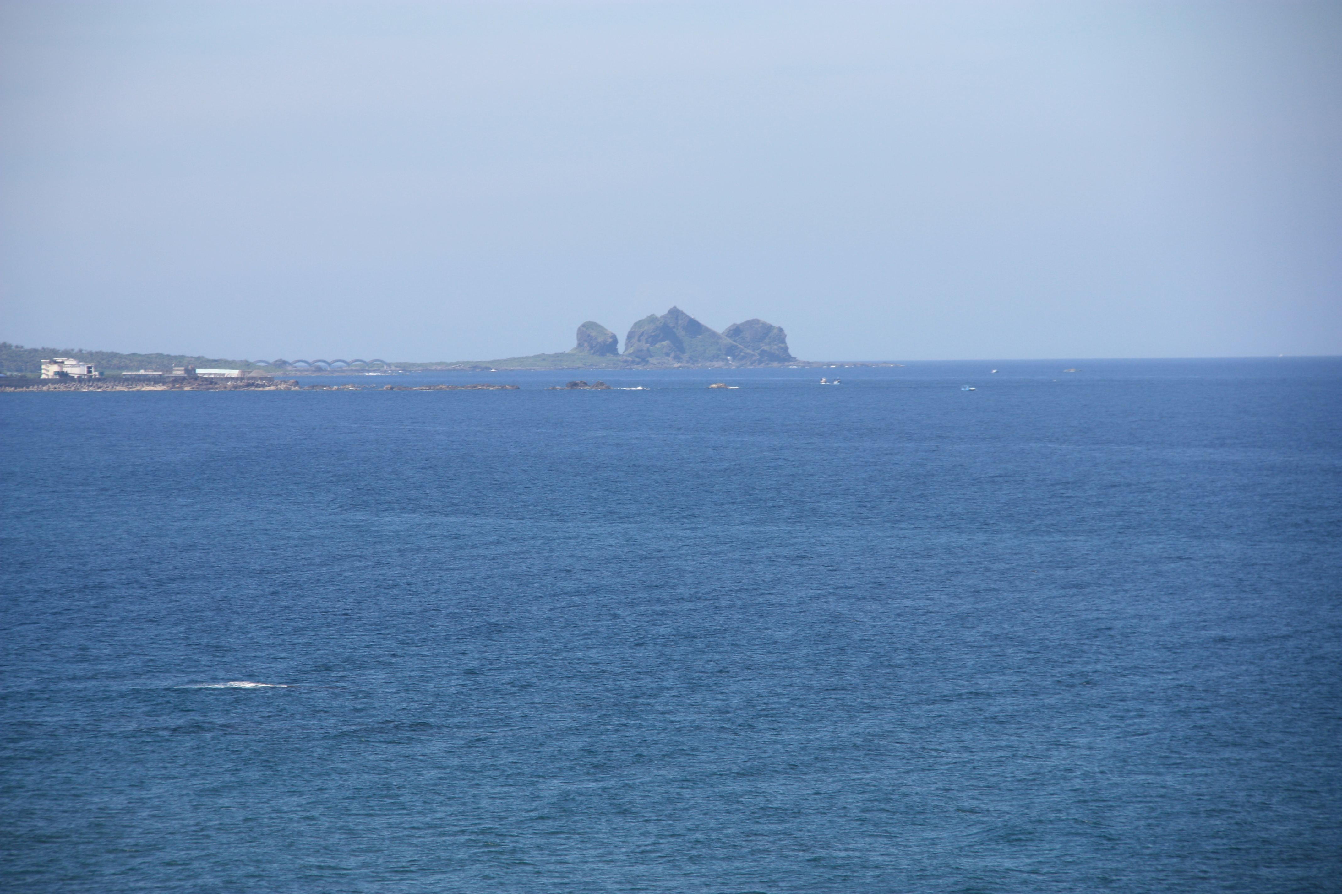 Taitung County Chenggong Township JiāPíng Rd close to Hwy 11 View to Sansiantai